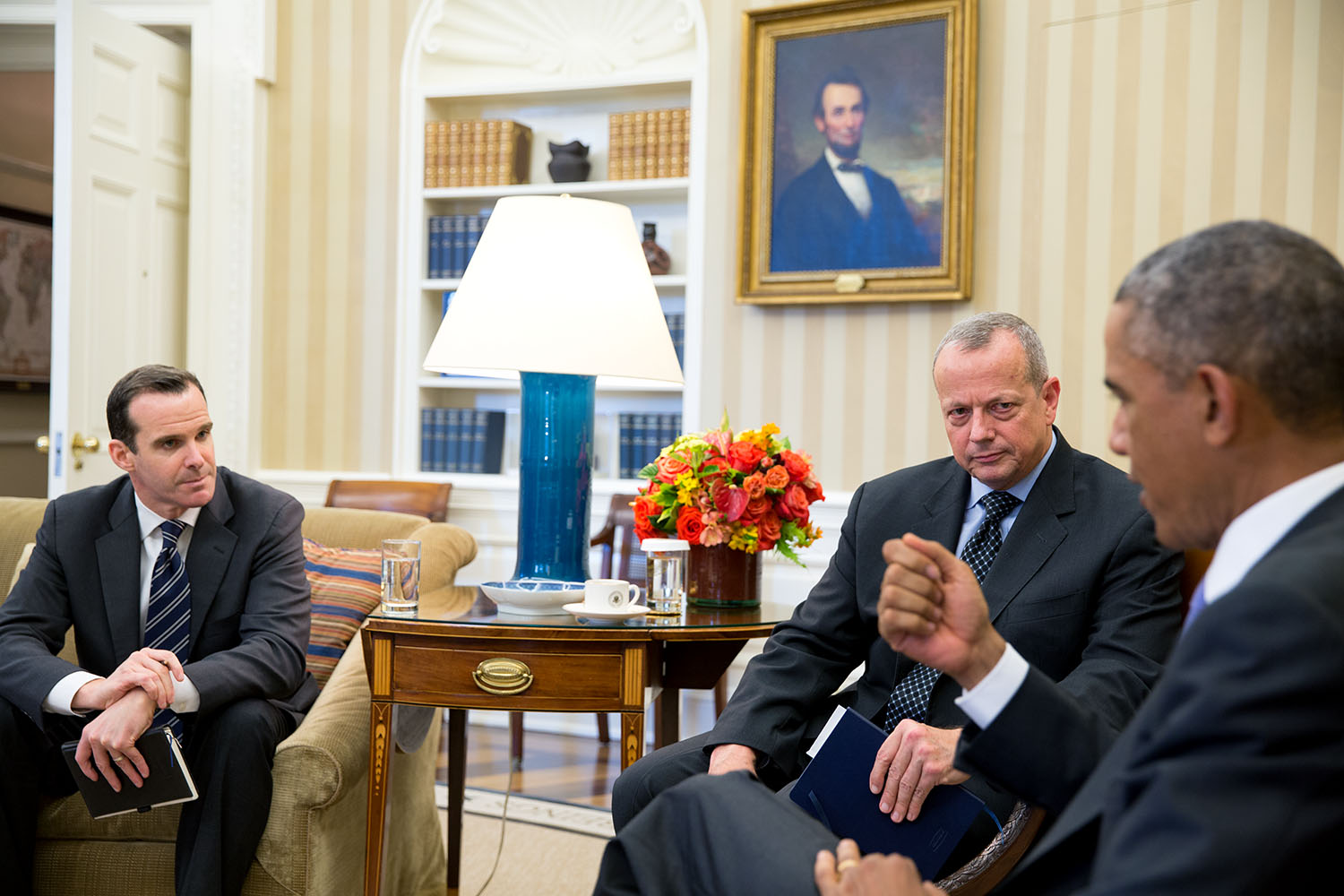 President Barack Obama meets with retired Gen. John Allen, Special Presidential Envoy for the Global Coalition to Counter ISIL, and Brett McGurk, Deputy Special Presidential Envoy, left, in the Oval Office, Sept. 16, 2014. (Official White House Photo by Pete Souza)